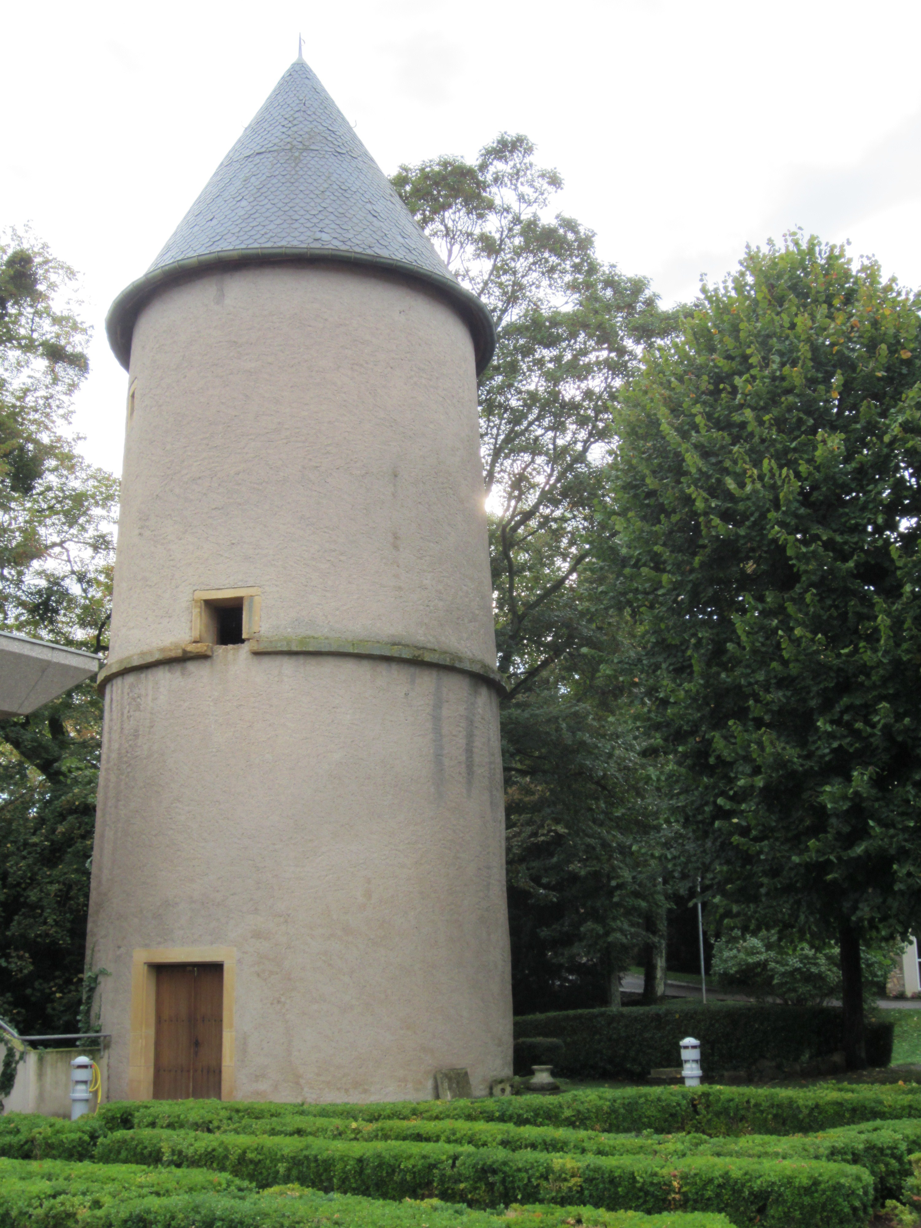 Description pigeonnier chateau Noveant Moselle Date12 September 2011Sourcemon appareil photoAuthorAimelaimePermission(Reusing this file) pigeonnier chateau Noveant Moselle